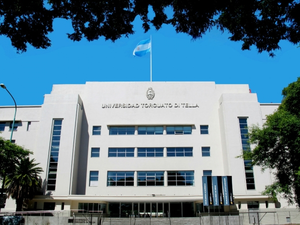 Façade of Torcuato di Tella university in early 2013.